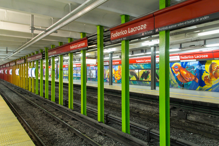 Federico Lacroze station with painted columns and murals.